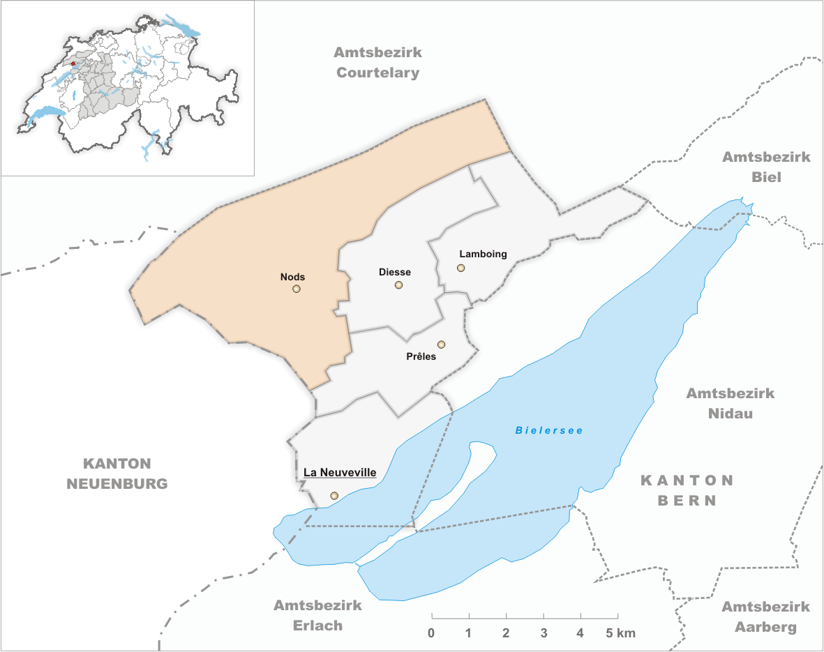 Municipality Nods